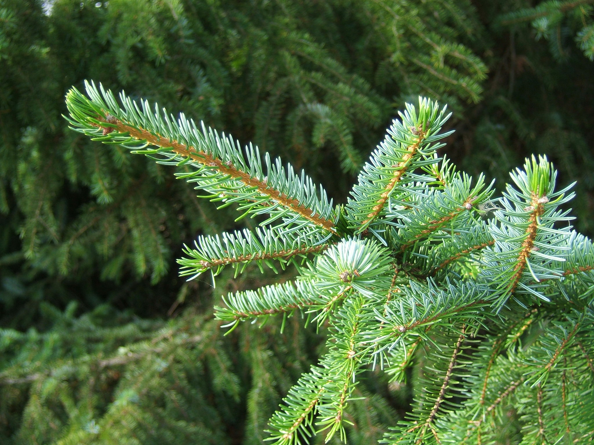 Picea omorika foliage. Cultivated in a forestry plantation, Kielder, Northumberland/Scotland border, UK.